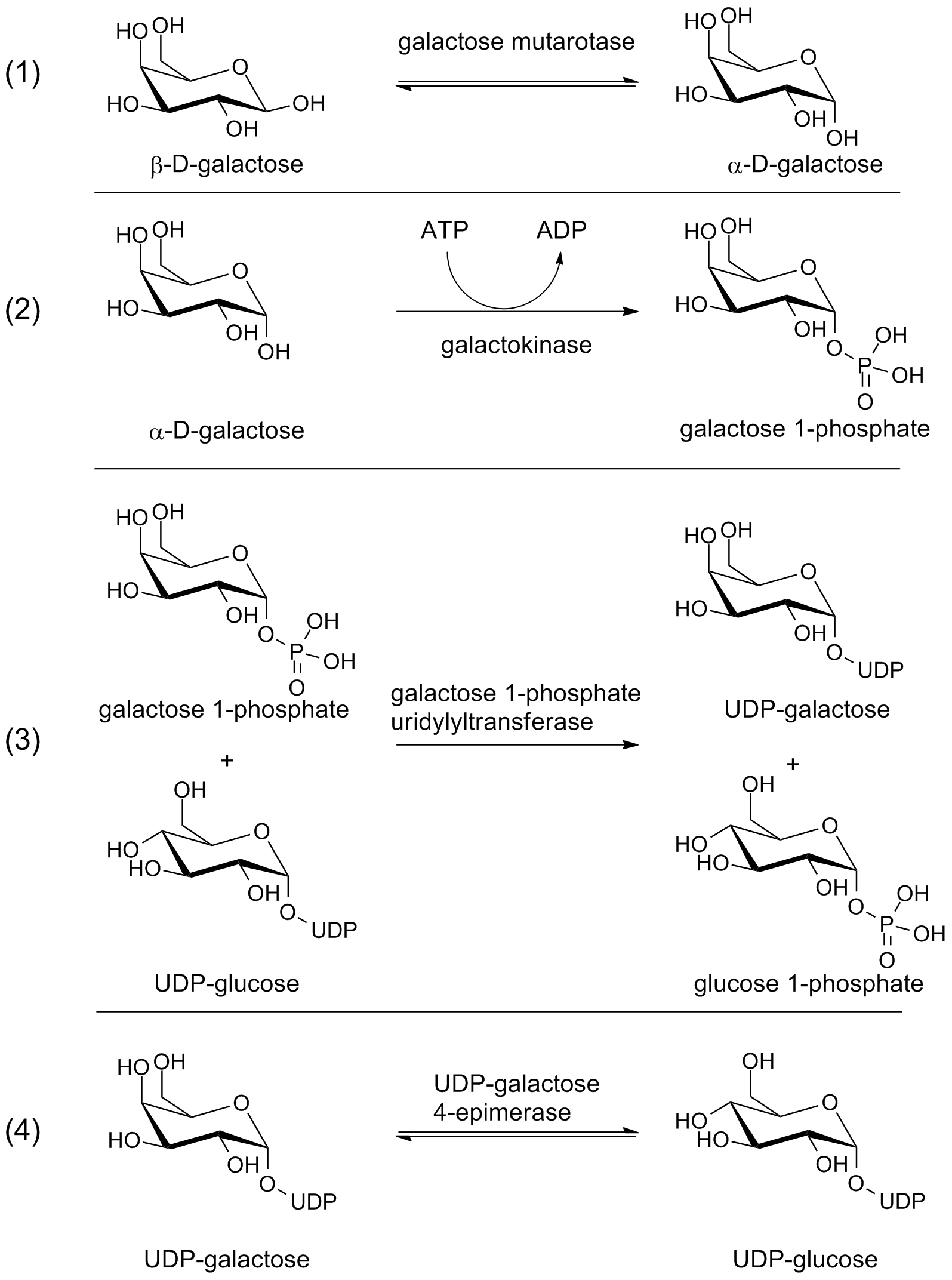 Diagram showing the metabolism of galactose via the Leloir pathway. UDP is uridine diphosphate. Based on: Holden H M et al. J. Biol. Chem. 2003;278:43885-43888